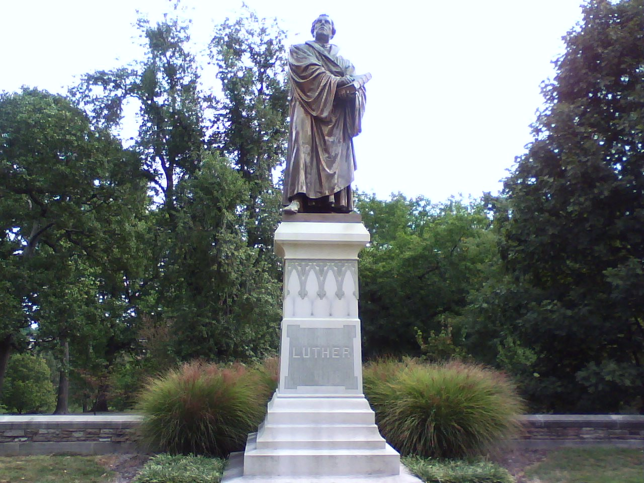 Luther Statue at Concordia Seminary (Tim Seidenstricker photo)